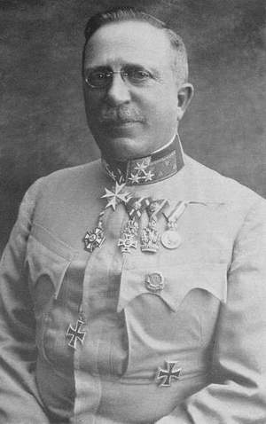 Baron Arz Arthur von Straussenburg, colonel general, Chief of General Staff of the Austro-Hungarian Monarchy 1917-1918. Photo made in 1917.